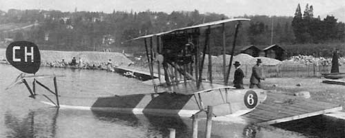 Ad Astra Aero S.A. : Biplace flying boat Savoia S-13 (CH6) at Cologny (GE) on Lake Geneva.